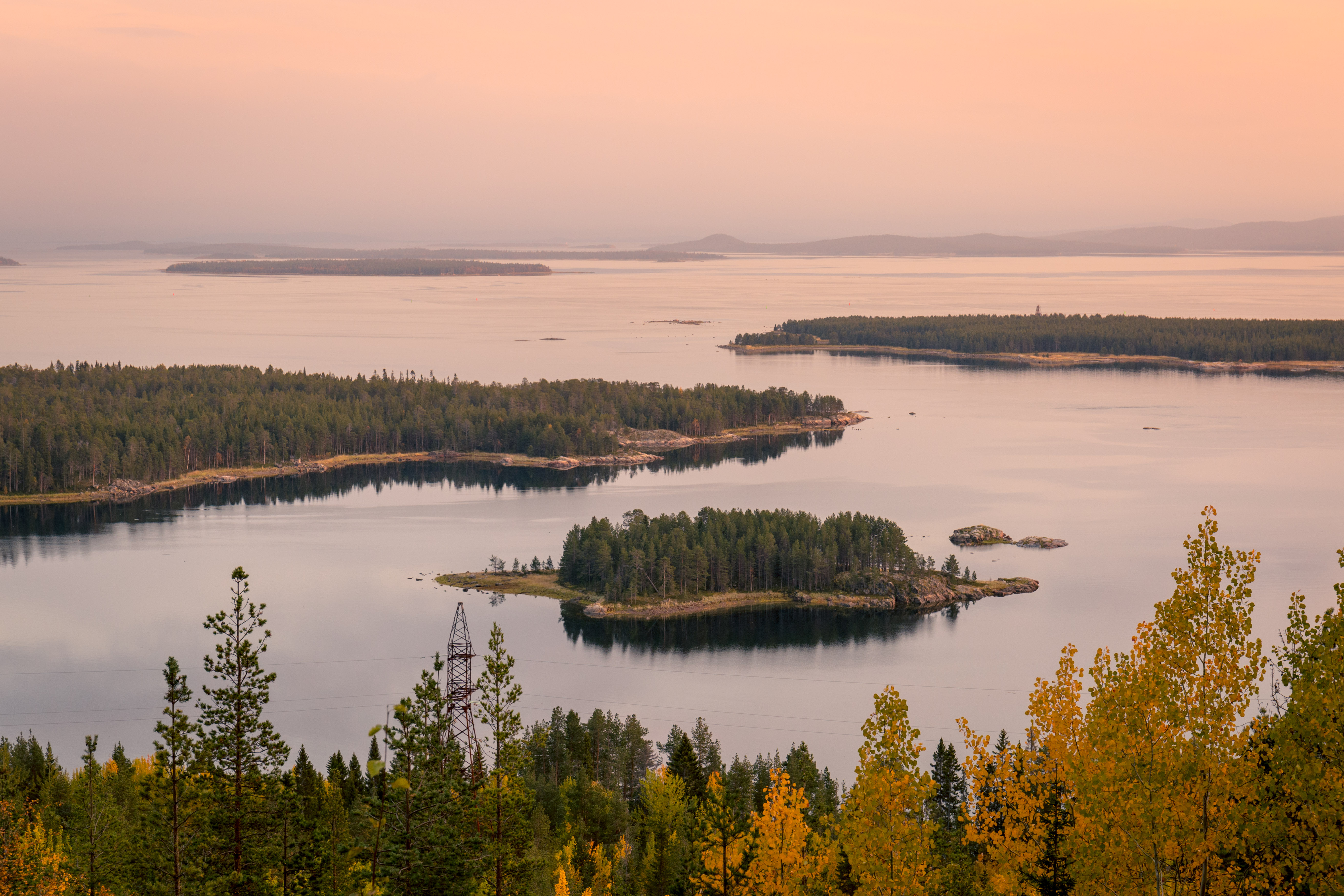 Kandalaksha Bay